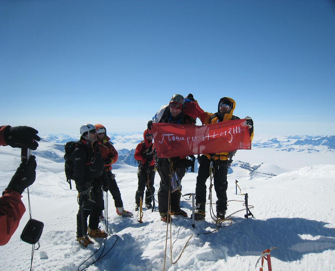 The Russian Arctic Expedition 2011 on the summit of Mt Gunnbjorn (3694m), in the Watkins Mountains, Greenland, 24/05/2011 (first Russians to reach the top of the Arctic)